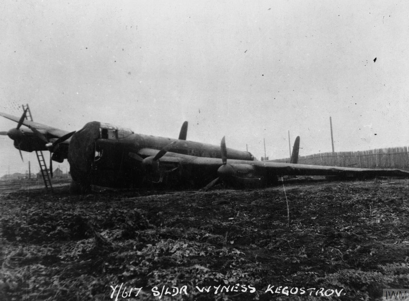 A No 617 Squadron Lancaster which crashed at Kegostrov in the USSR before the attack on the German battleship Tirpitz during Operation Paravane